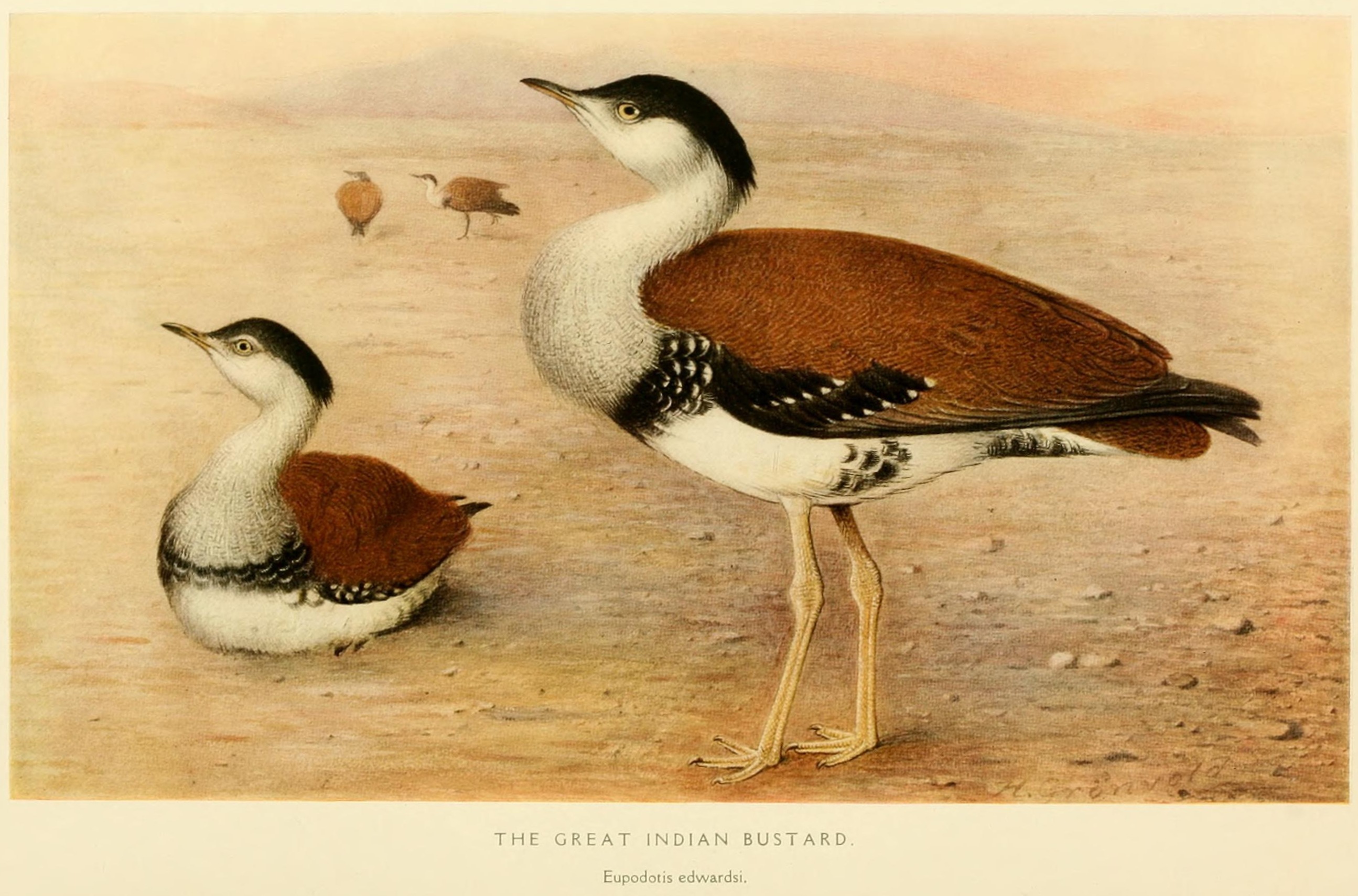 The Great Indian Bustard Eupodotis edwardsi = Ardeotis nigriceps (Great Indian Bustard)